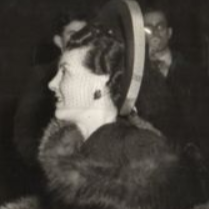 MY SISTER AND I 1948 - DERMOT WALSH - EMERY BONETT - DENHAM STILL